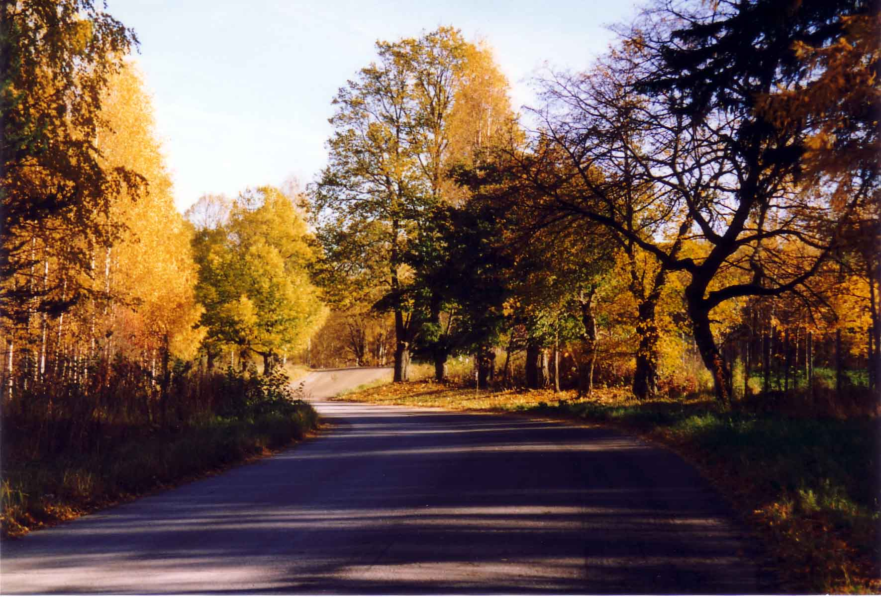 Autumn colors in Lappeenranta, Finland